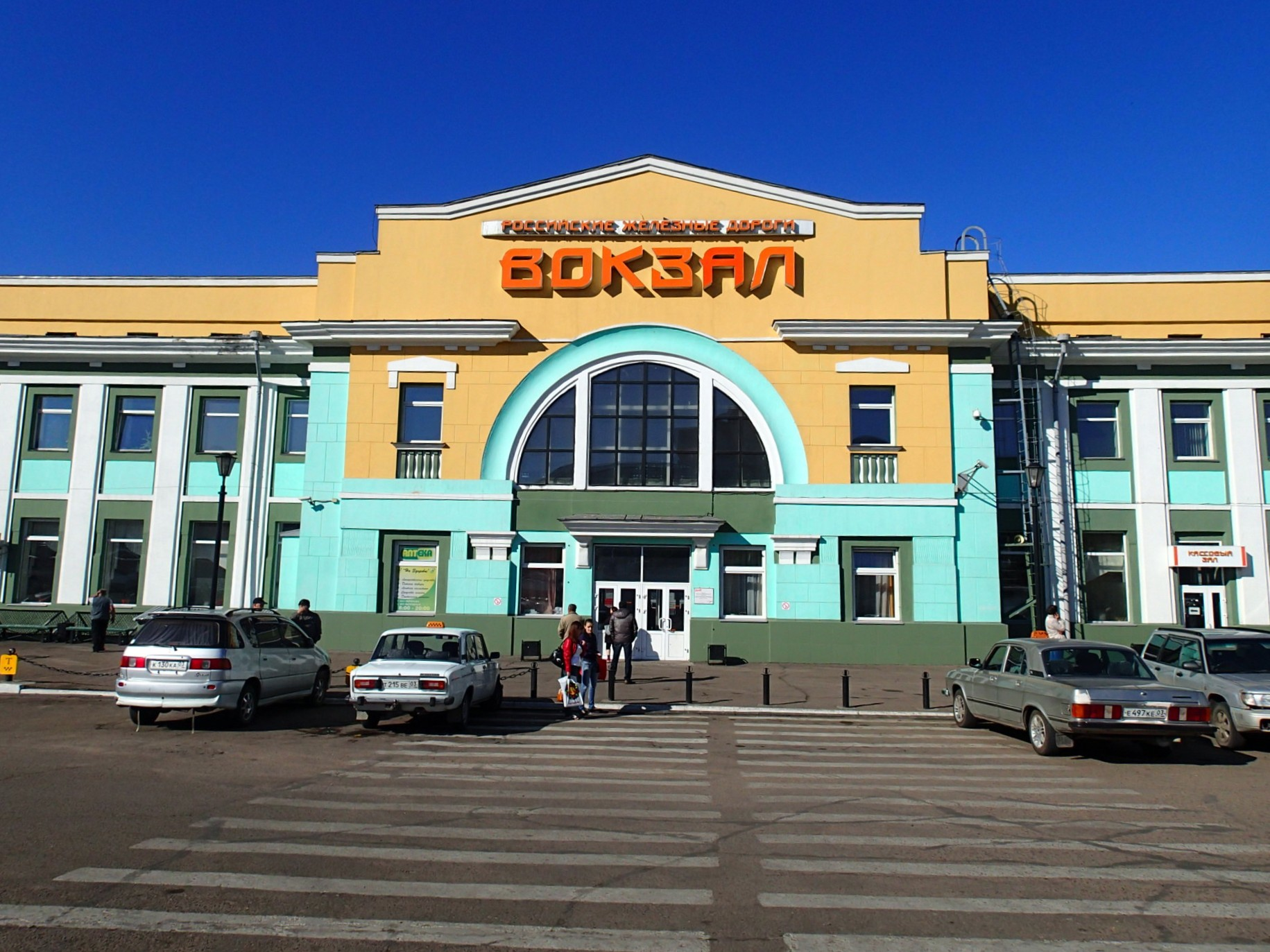 Ulan Ude Train Station